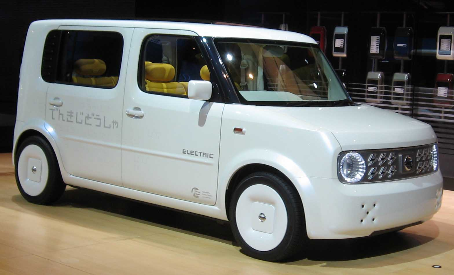 Nissan Denki Cube concept photographed at the 2008 New York Auto Show.